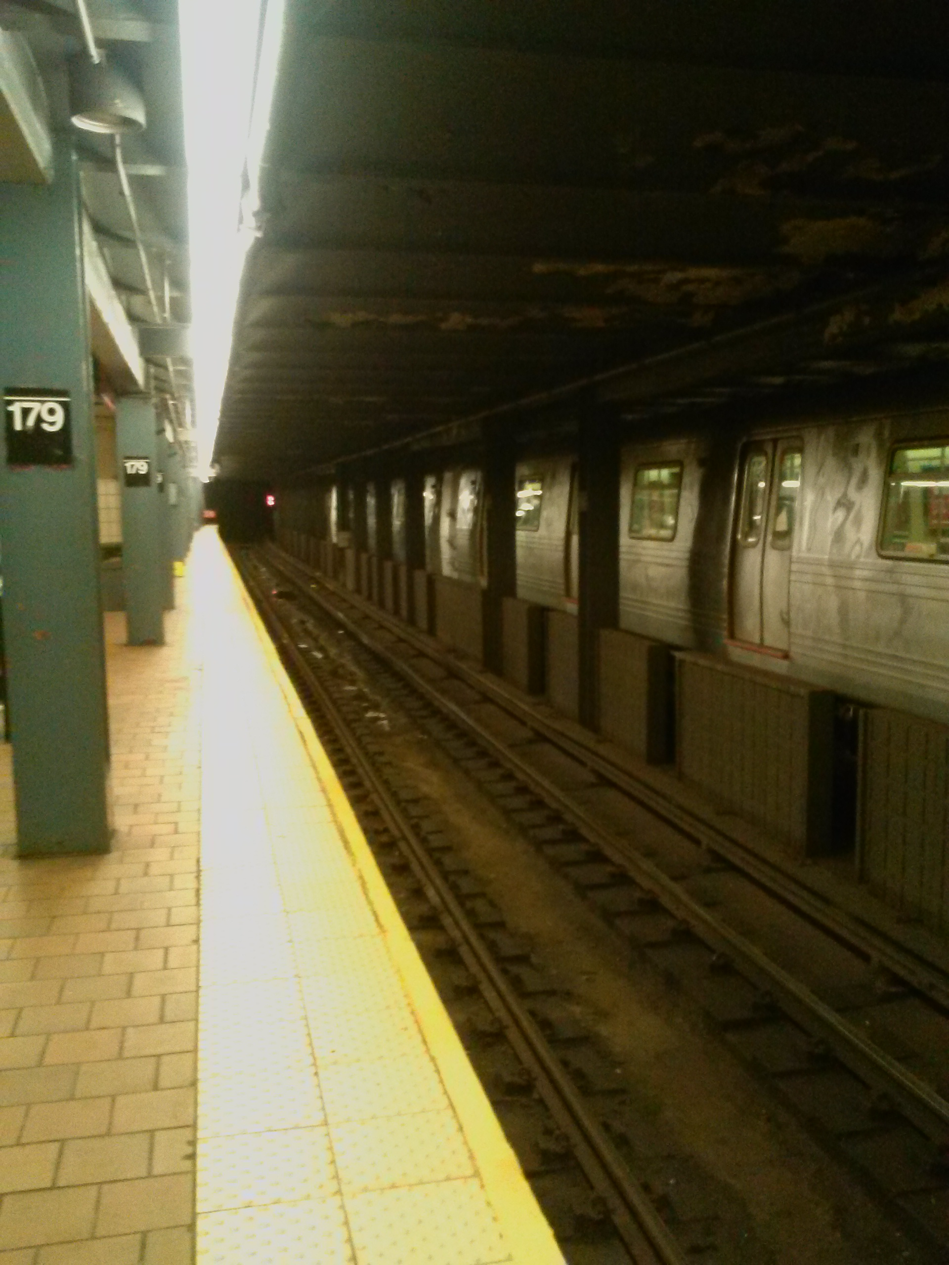 Northbound platform, looking southbound. A R46 F train is parked on the express, loading passengers heading to Manhattan.